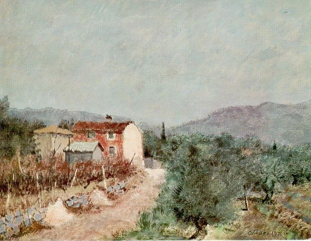 Painting by Silvio Oliboni : Gaiun / 1237ac